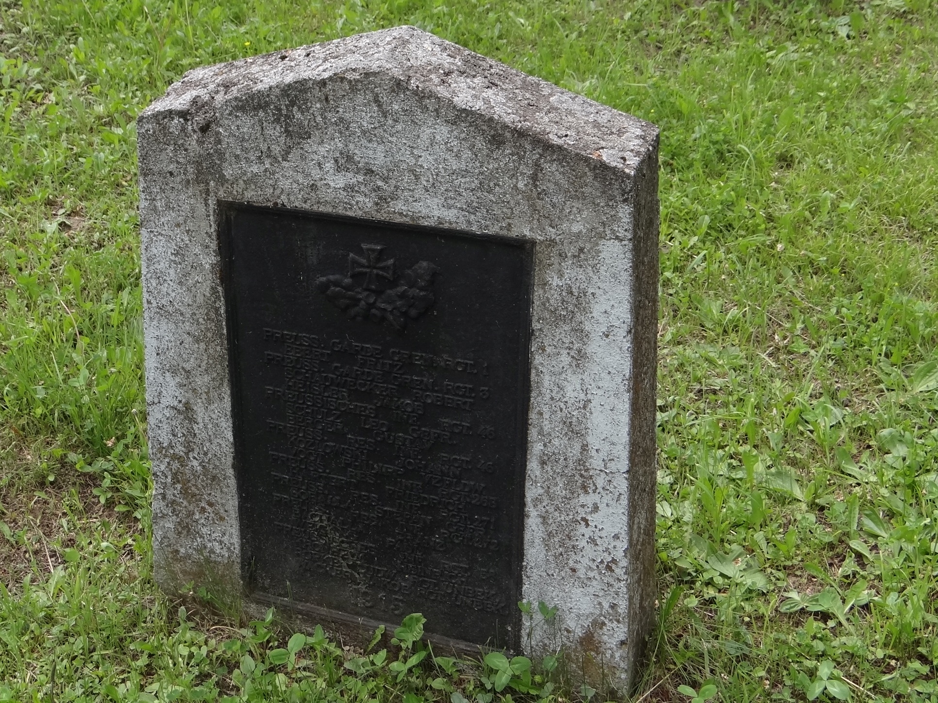 World War I Cemetery nr 130 in Grybów